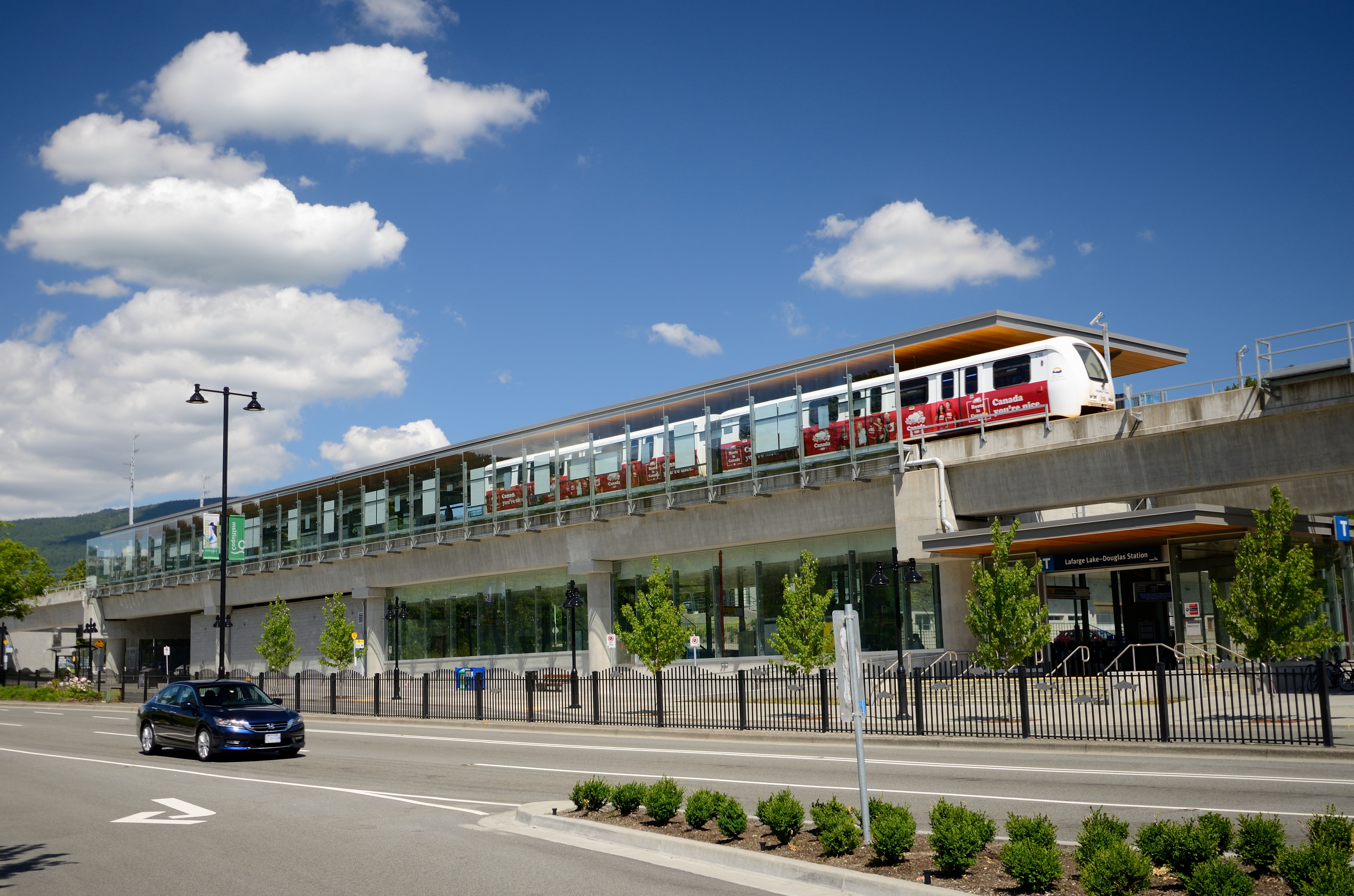 Exterior shot of Coquitlam's Lafarge Lake – Douglas station on the Millenium Line.